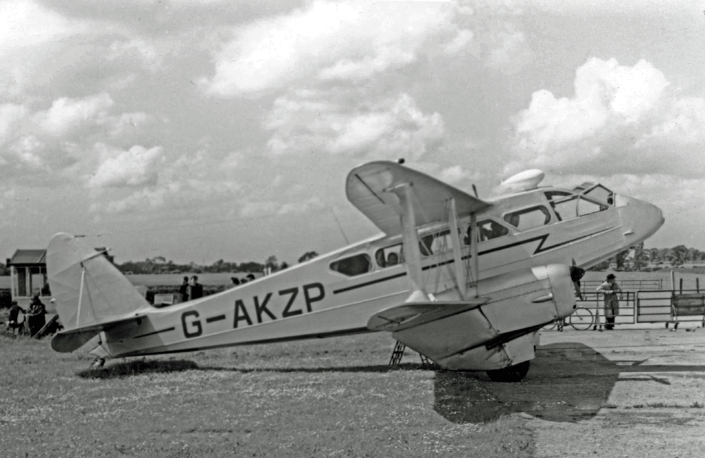 De Havilland DH.89A Dragon Rapide G-AKZP built by Brush Coachworks in April 1945